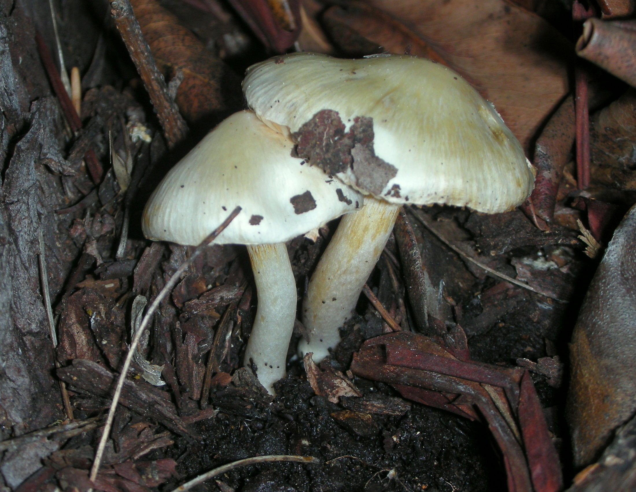 Inocybe geophylla from Medford, Oregon, USA These were growing next to Madrone with Ponderosa Pine also in the area(~ 2900 ft. elevation). Spores were ~ 7.5 X 5.5 microns. There was a moderate amount of cystidia on the gills